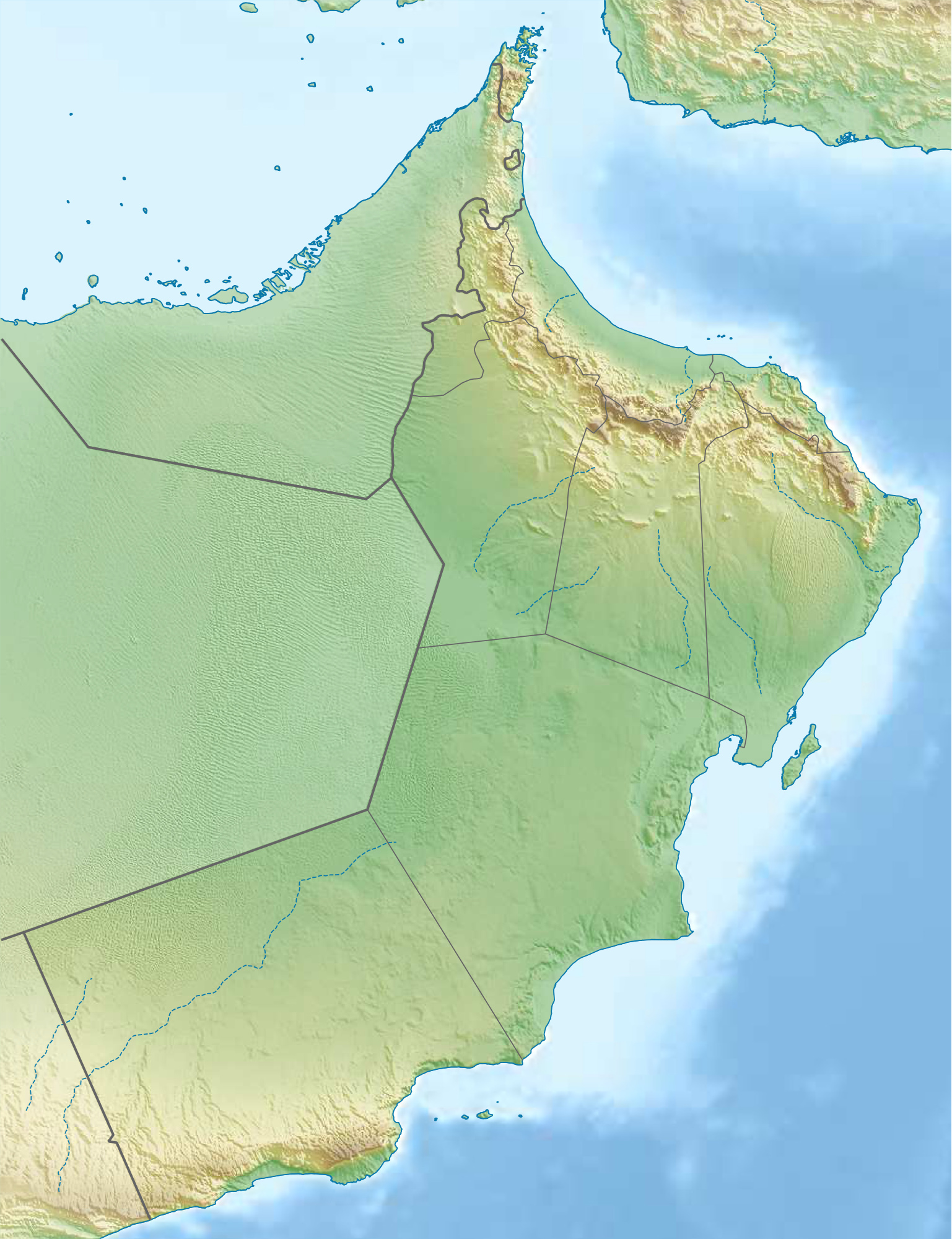 Physical location map of Oman Equirectangular projection, N/S stretching 107 %. Geographic limits of the map: N: 26.6° N S: 16.5° N W: 51.8° E E: 60.1° E